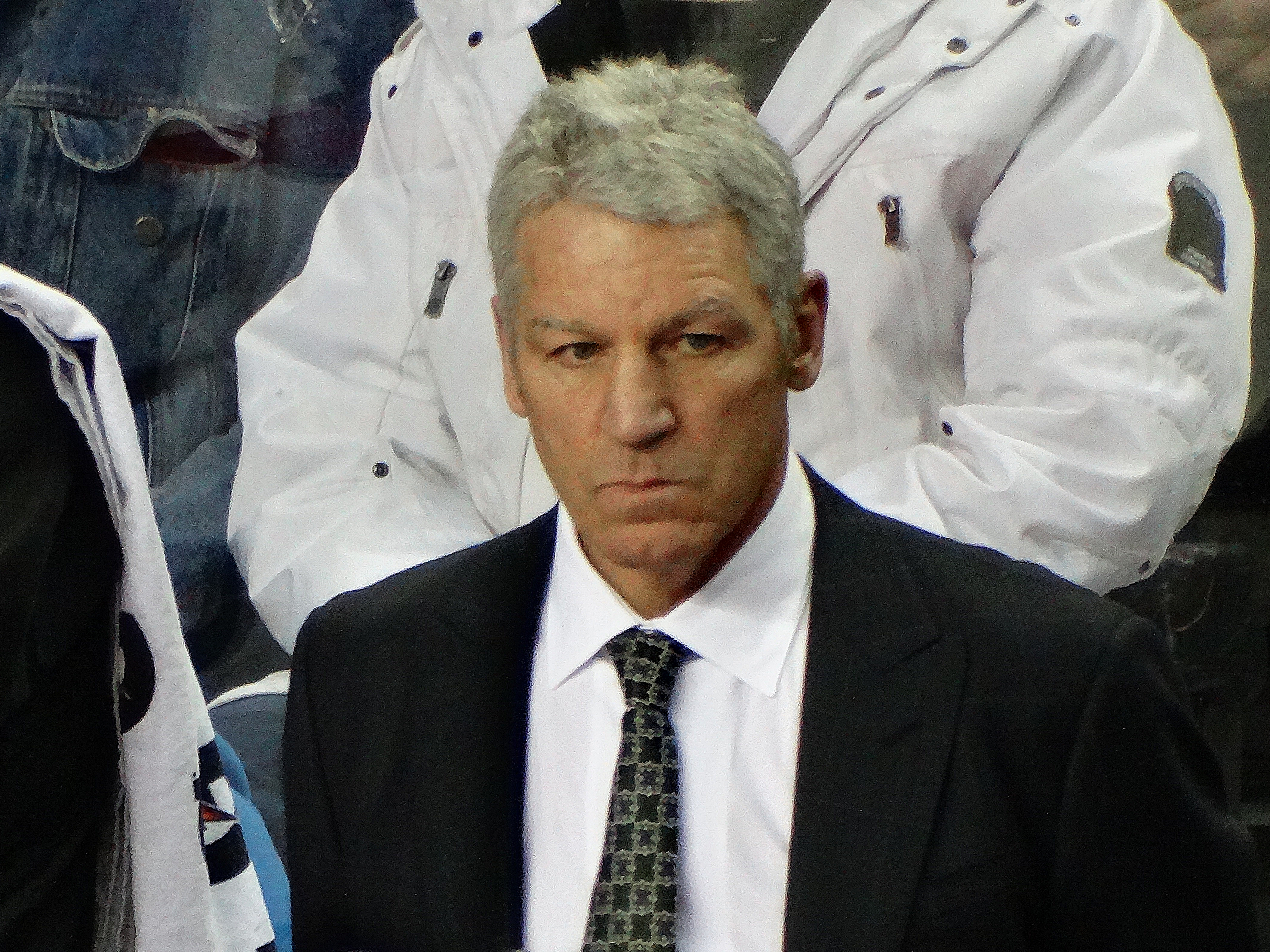 Paul Reinhart served as an assistant coach for Team Cherry. He was chosen 12th overall by the Atlanta Flames in 1979 NHL Entry Draft, and played 648 NHL games with the Atlanta/Calgary Flames and Vancouver Canucks. The CHL / NHL Top Prospects game at Scotiabank Saddledome on January 15, 2014 in Calgary, Alberta, Canada. Team Orr defeated Team Cherry 4-3.